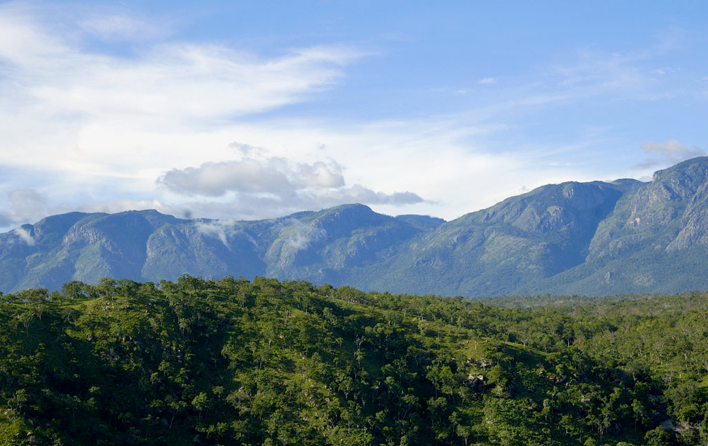 Moyar gorge from the Bandipur side looking at the high mountains of the Nilgiris